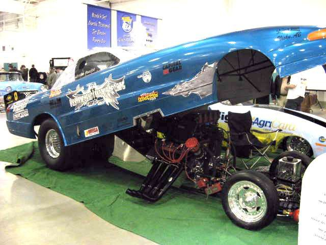 Funny Car on display at local car show